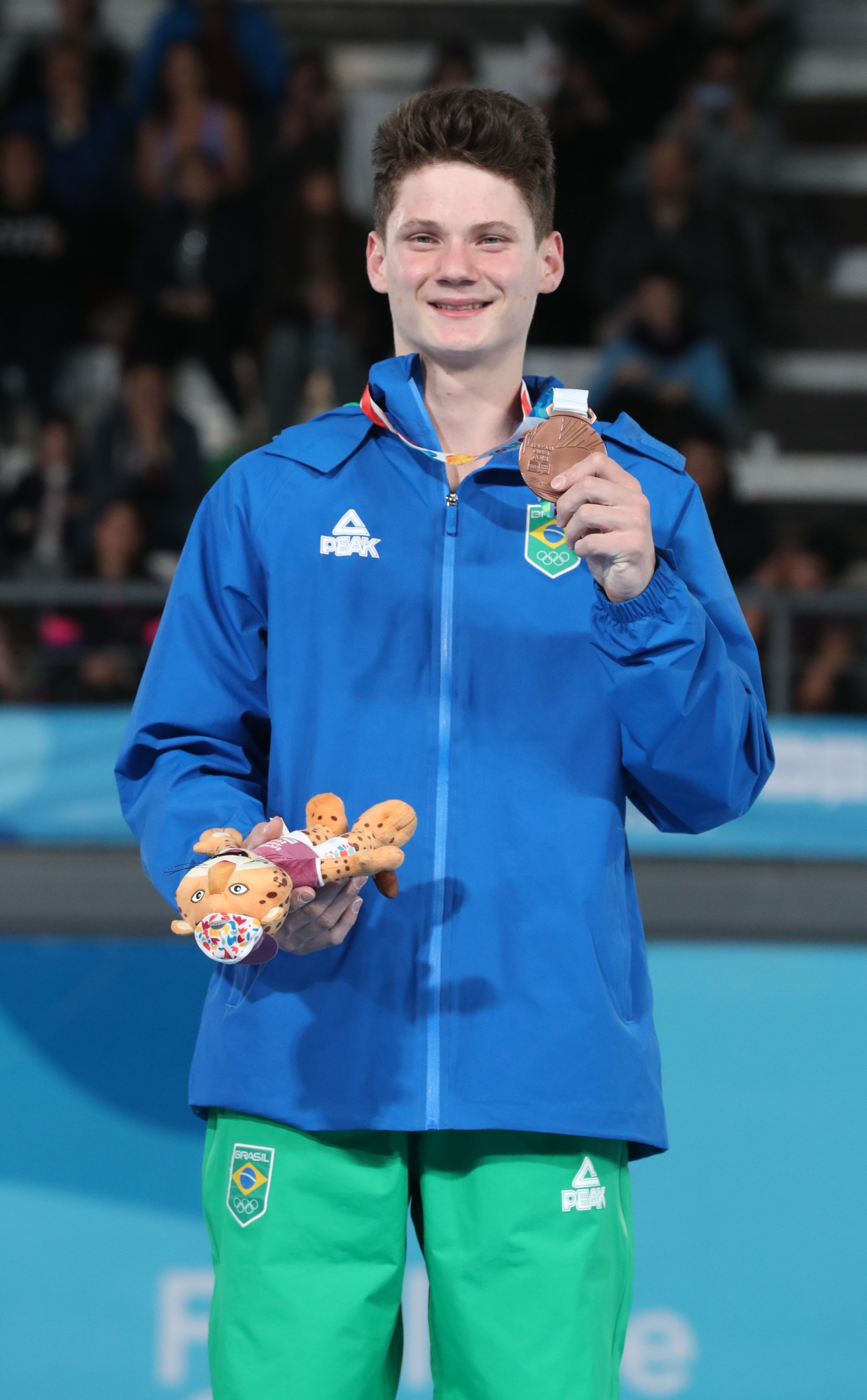 Victory ceremony of the boys' artistic gymnastics at the 2018 Summer Youth Olympics in Buenos Aires on 11 October 2018. Depicted: Diogo Soares.